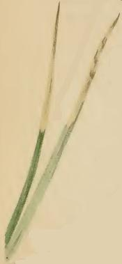 Stainton’s Natural History of the Tineina (1855–1873): Elachista albifrontella mined leaves of Holcus mollis